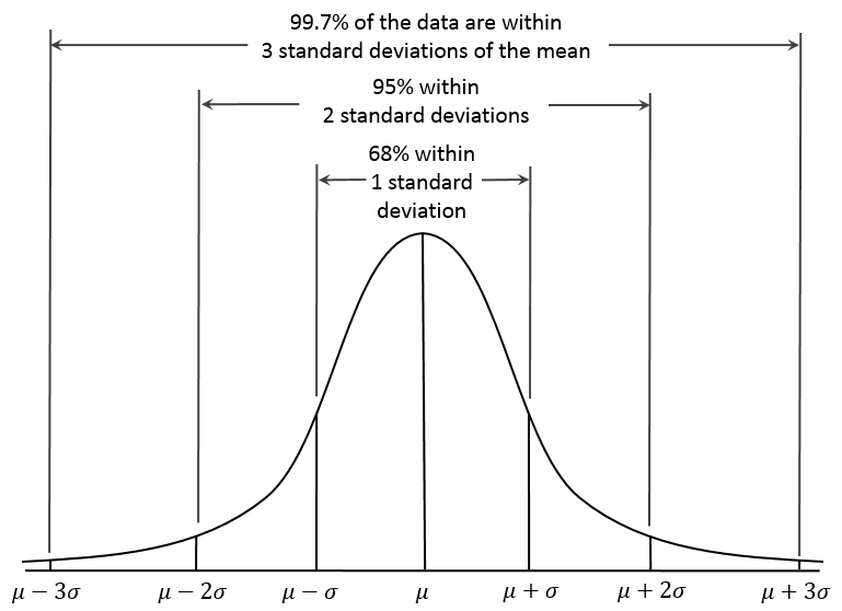 A visual representation of the Empirical (68-95-99.7) Rule based on the normal distribution.